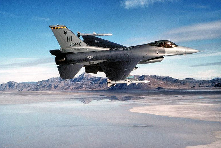 USAF F-16C block 30 #87-0340 from the 466th FS "Diamondback" flies a training mission over the Great Salt Lake. The 419th is one of approximately 30 flying wings in the reserve and is the only Air Force Reserve unit in Utah. If the wing were mobilized for active duty, its aircraft and most of its members would be assigned to Air Combat Command. This image was used in the April 2000 Airman Magazine article"High-fivin' 'n' Huggin'." and was taken on April 1st, 2000. [USAF photo by SSgt Gary Coppage]